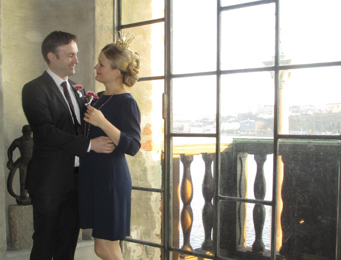 Wedding (civil ceremony) of Jens O. Z. Ehrs & Anna FlodmarkPlace: City Hall, Stockholm, Sweden